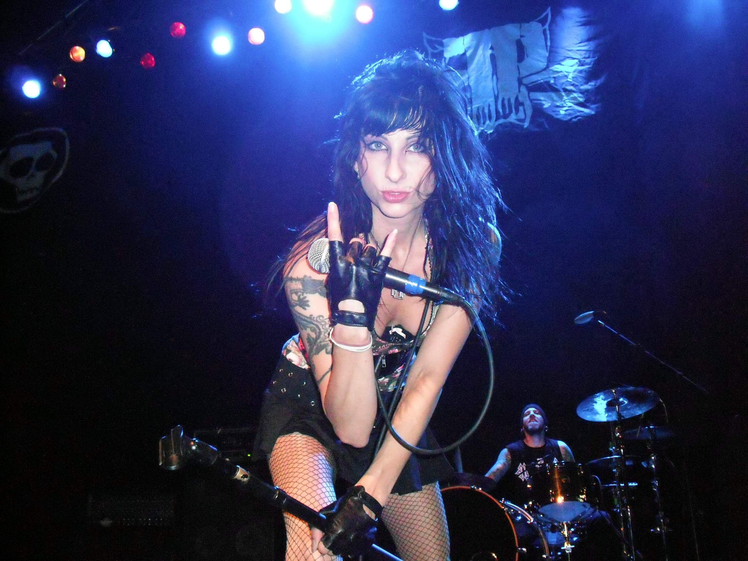 Sister Sin, photography By Ted Van Pelt. AT Ramshead Live Baltimore on 8-2-2009.